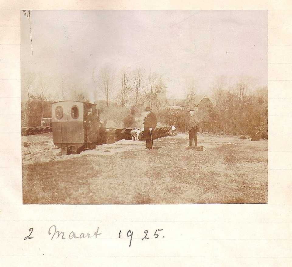 The construction of Thijsse's Hof near Bloemendaal (Netherlands); the person on the left with the walking stick might be Leonard Springer; the young man might be Cees Sipkes; 2 march 1925